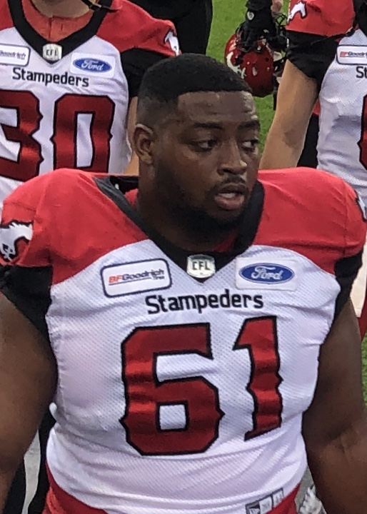 Ucambre Williams, offensive lineman for the Calgary Stampeders.